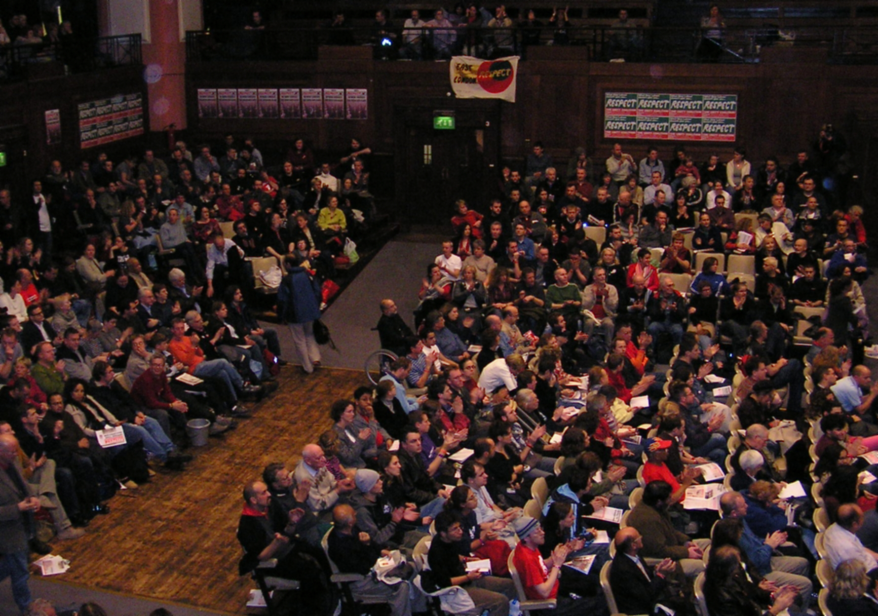 Respect Coalition fringe meeting at the European Social Forum in London. Taken by JK the Unwise